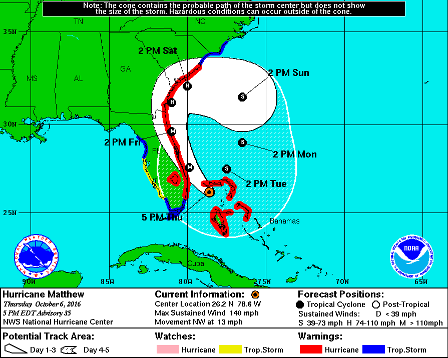 Five-day forecast cone of uncertainty with track line for Matthew from the National Hurricane Center, since 28 September 2016